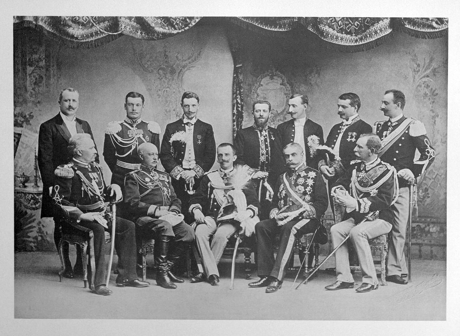 Italian embassy to 'coronation of Nicholas II